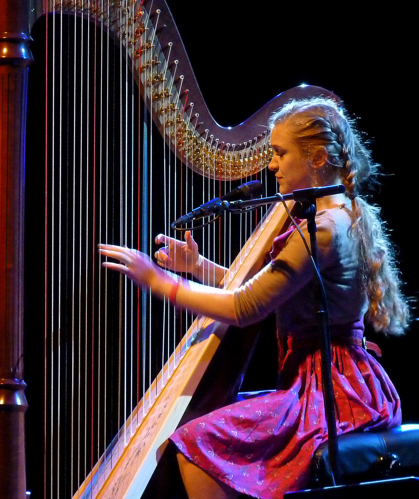 Joanna Newsom at End of the Road Festival 2011